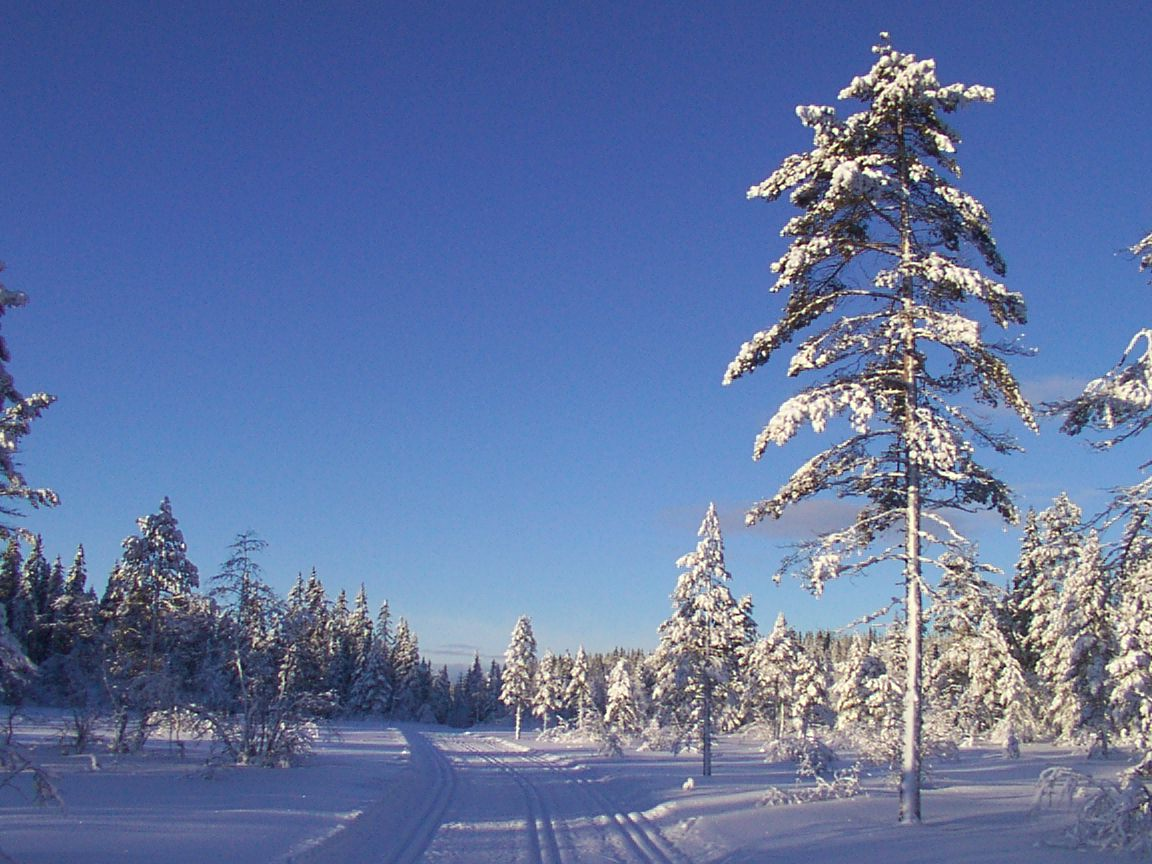 Winter at Ringkollen near the city of Hønefoss, South Norway